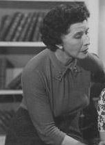 Martha Viana- actriz